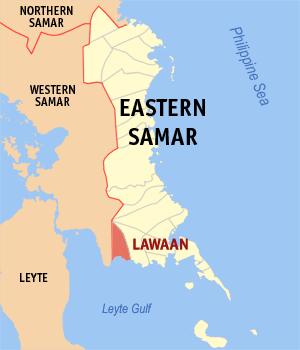 Map of Eastern Samar showing the location of Lawaan